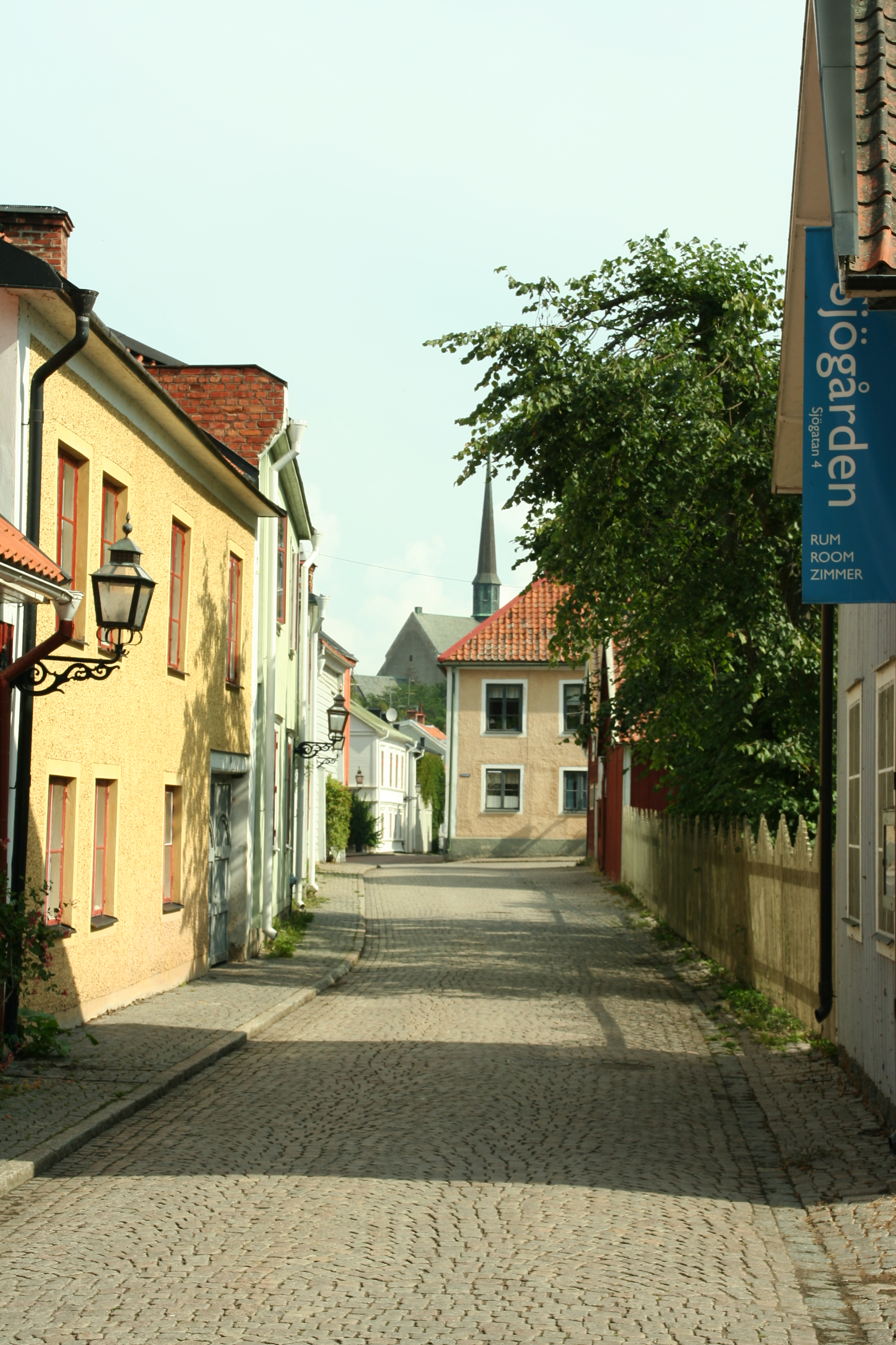 Small street in Vadstena, Sweden. Photographed by Niels Bosboom in August 2006.